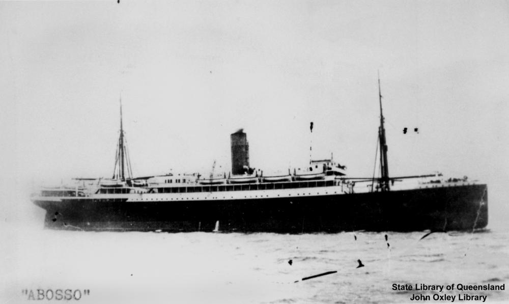 SS Abosso, a 7,782 GRT passenger ship of Elder Dempster Lines, Liverpool, England. Built in 1912 by Harland and Wolff, Belfast; sunk in 1917 by the German submarine SM U-43.